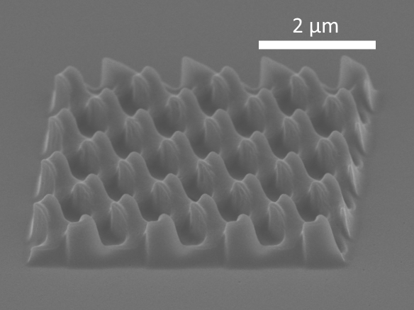 Electron microscope image of a 3D diffractive beam splitter fabricated on an optical fiber using nanoimprint lithography.